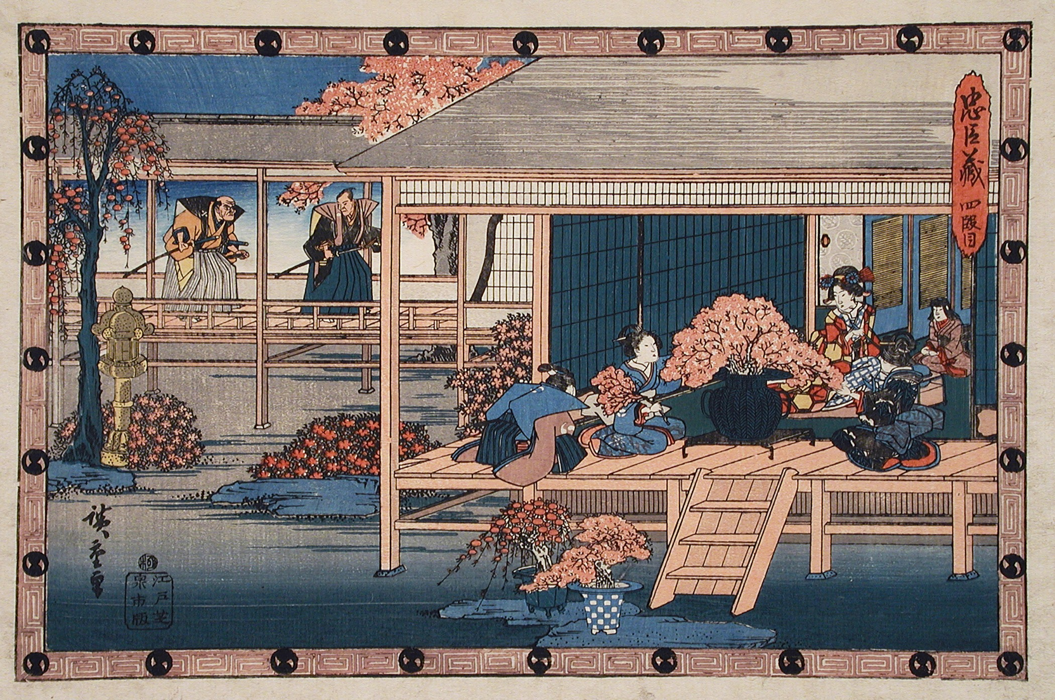 Japan, circa 1835-1839 Series: The Storehouse of Loyal Retainers Prints; woodcuts Color woodblock print Image: 9 1/16 x 14 in. (23.1 x 35.6 cm); Sheet: 10 x 14 13/16 in. (25.4 x 37.7 cm) Gift of Dr. Harvey Eagleson (M.66.35.49) Japanese Art